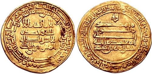 ISLAMIC, Egypt & Syria (Pre-Fatimid). Tulunids. Khumarawaih bin Ahmad. AH 270-282 / AD 884-896. AV Dinar (21mm, 4.05 g, 6h). Misr (Cairo) mint. Dated AH 272 (AD 885/6). Citing Caliph al-Mu‘tamid and heirs al-Mufawwidh and Ahmad b. al-Muwaffiq. AGC I ; Album 664.1. VF, flan a bit wavy, deposits on obverse. The dinar contains the standard set of inscriptions found on Abbasid coins of the late ninth century. As follows: Obverse center: لا إله إلا \ الله وحده \ لا شريك له \ المفوض إلى الله "There is no god but God alone; He has no partner. [The heir-apparent] al-Mufawwad ila-Allah." Obverse inner margin: بسم الله ضرب هذا الدينار بمصر سنة اثنين وسبعين ومائتين "In the name of God, this dinar was struck in Misr the year two hundred and seventy-two (885-886 AD)." Obverse outer margin: لله الأمر من قبل ومن بعد ويومئذ يفرح المؤمنون بنصر الله "To God belongs the command [of all things] before and after. And that day the believers will rejoice in the help of God (Qur'an 30:4-5)." Reverse center: لله \ محمد \ رسول \ الله \ المعتمد على الله \ خمارويه بن أحمد "To God. Muhammad is the Messenger of God. [The caliph] al-Mu'tamid 'ala Allah. Khumarawayh ibn Ahmad." Reverse margin: محمد رسول الله أرسله بالهدى ودين الحق ليظهره على الدين كله ولو كره المشركون "Muhammad is the Messenger of God. He sent him with guidance and the true religion to proclaim it over all other religions, even if the polytheists dislike it (Qur'an 9:33)." For more details see: Bacharach, Jere L. Islamic History through Coins: An Analysis and Catalogue of Tenth-Century Ikhshidid Coinage. Cairo: The American University in Cairo Press, 2006. ISBN 977-424-930-5. pp 15-19 Rogers, Edward Thomas. "The Coins of the Tuluni Dynasty." The International Numismata Orientalia, IV." London: Trubner & Co., 1877. p. 17